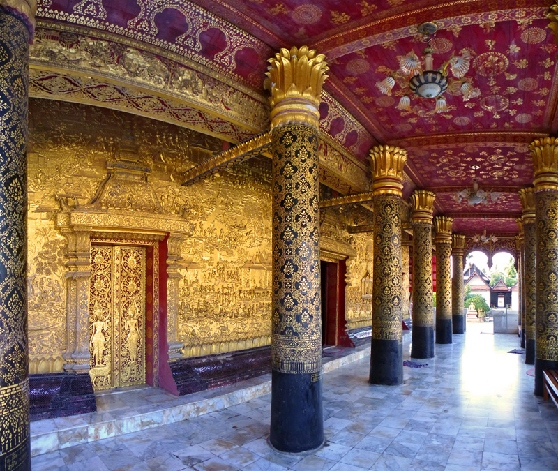 Vat May Souvannapoumaram, Luang Prabang, Laos.